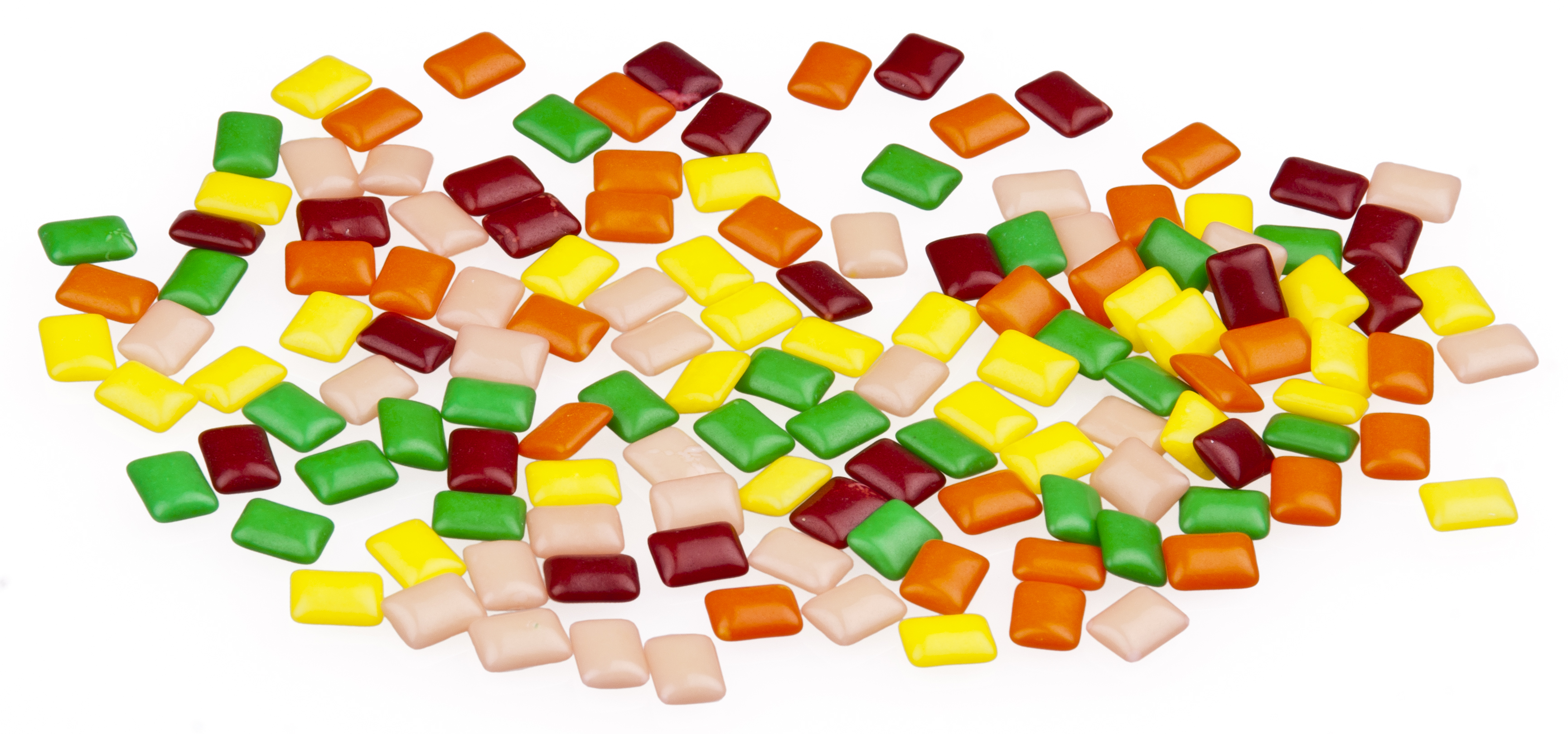 Chiclets candies, made by Cadbury Adams.